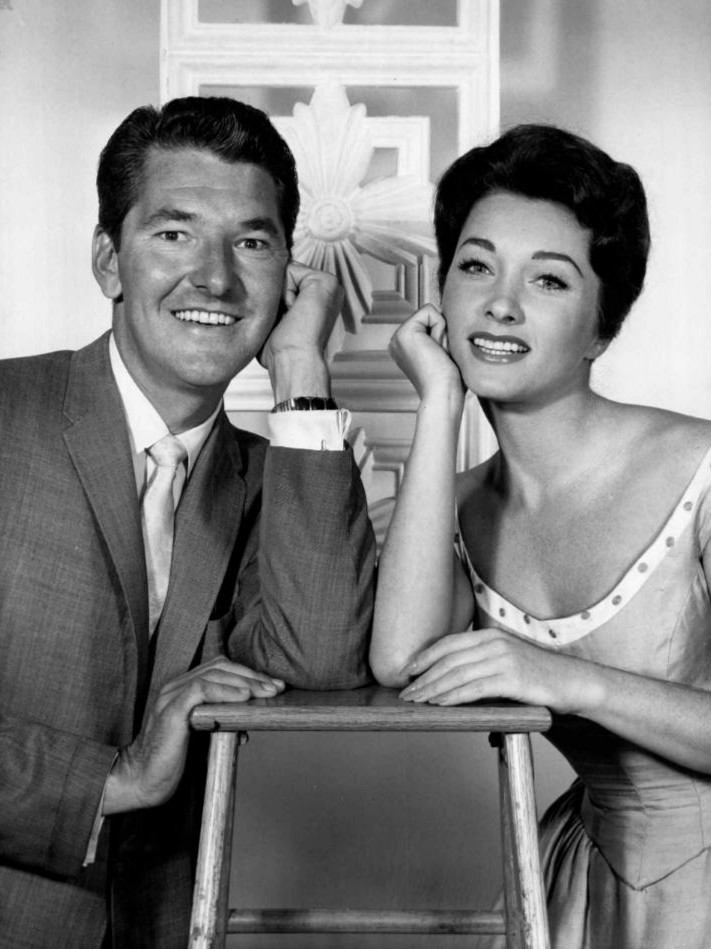 Publicity photo of Jack Narz and Joanne Copeland from the television program Video Village. Note-Ms. Copeland was the second wife of Tonight show host Johnny Carson.